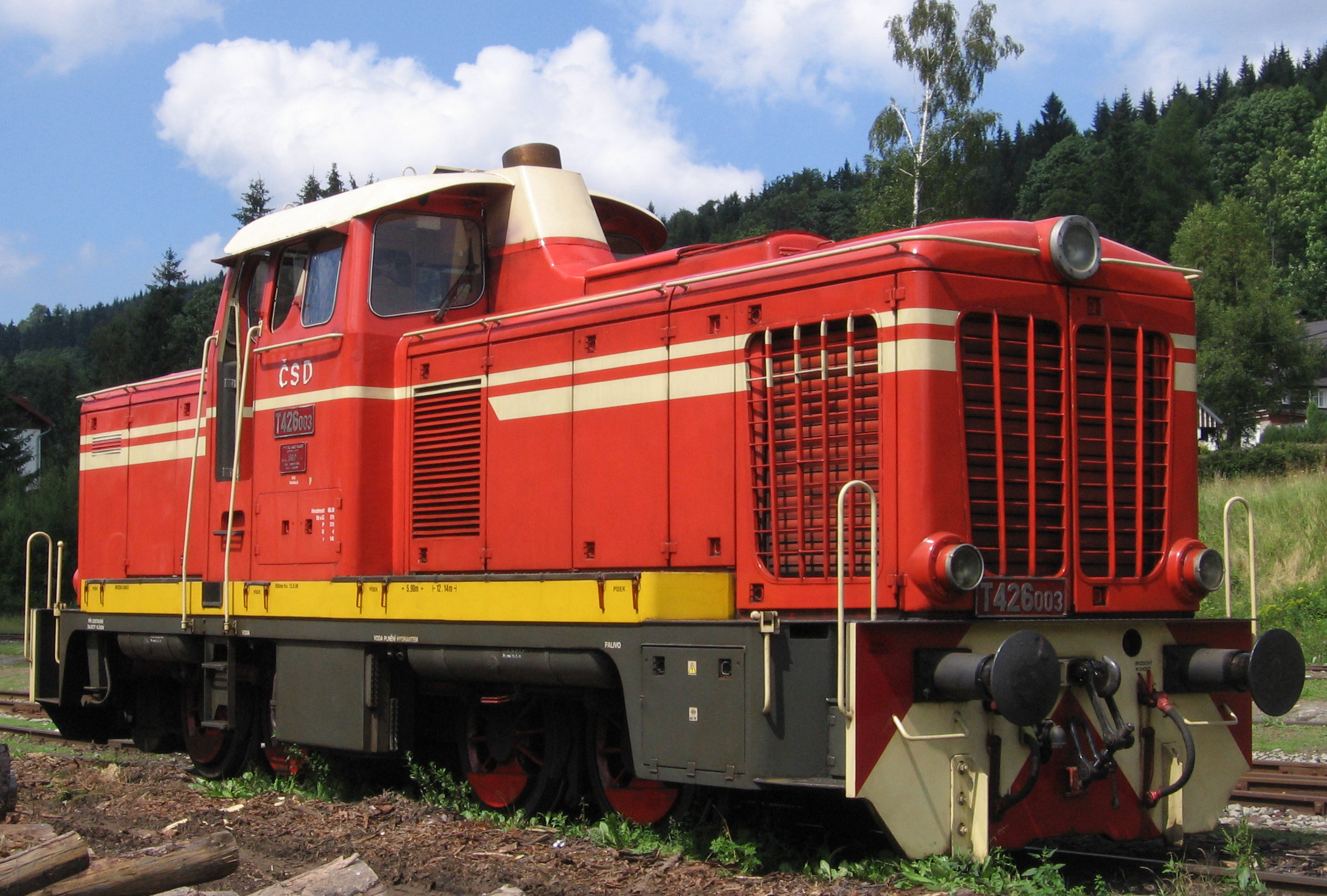 T 426.003